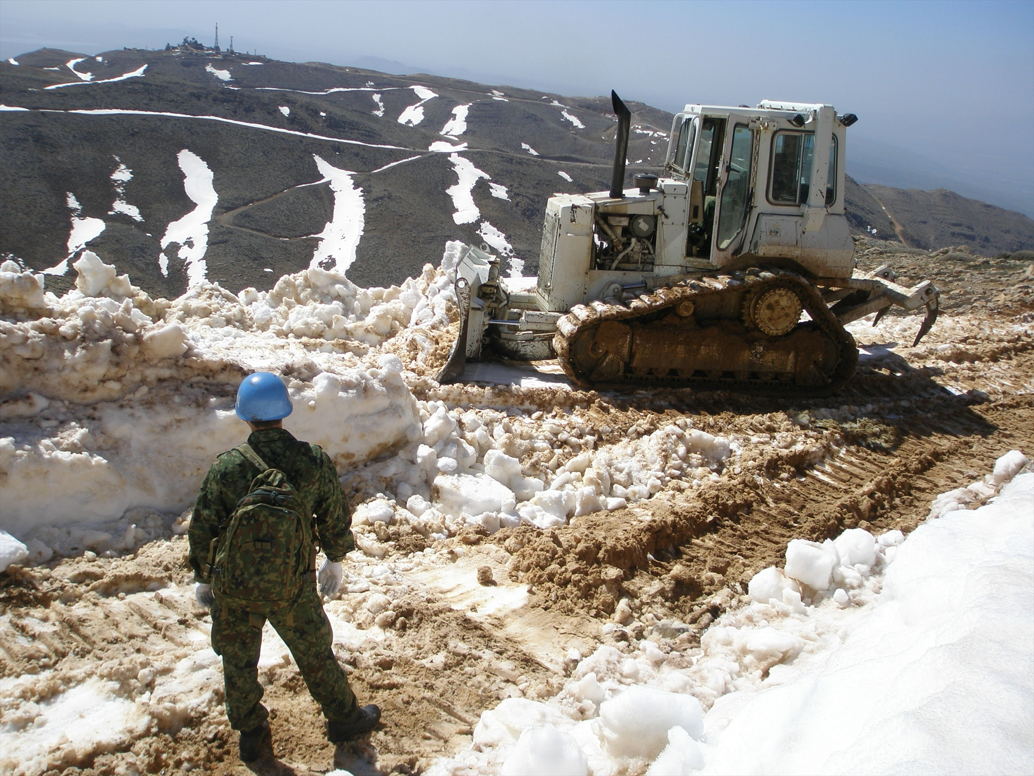 United Nations Disengagement Observer Force Transport Units